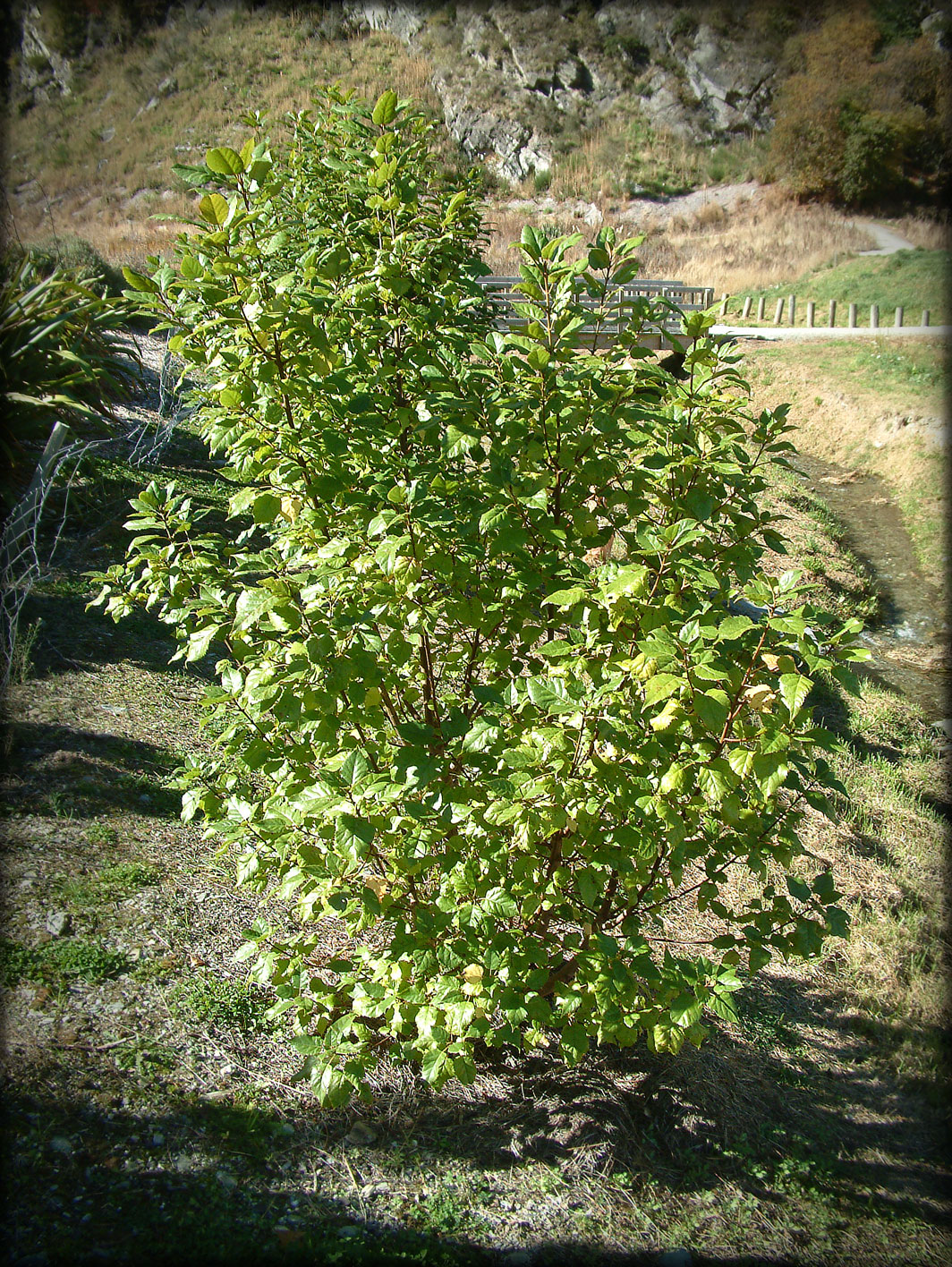 Wineberry tree growing Queenstown, New Zealand